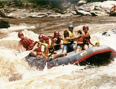 White water rafting on the Chattooga River. Transwiki approved by: User:Dmcdevit. This image was copied from en.